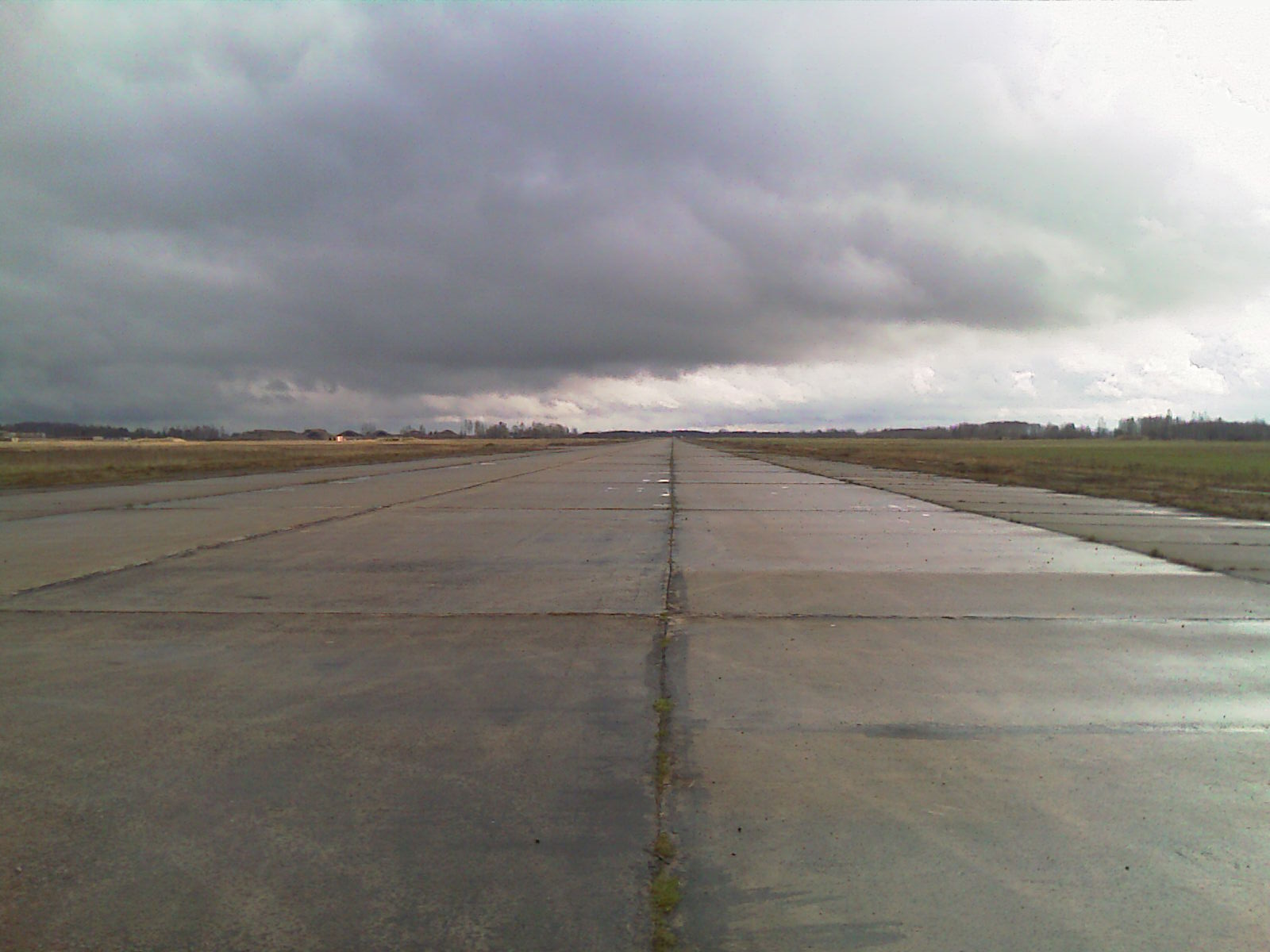 Jekabpils Airport Runway